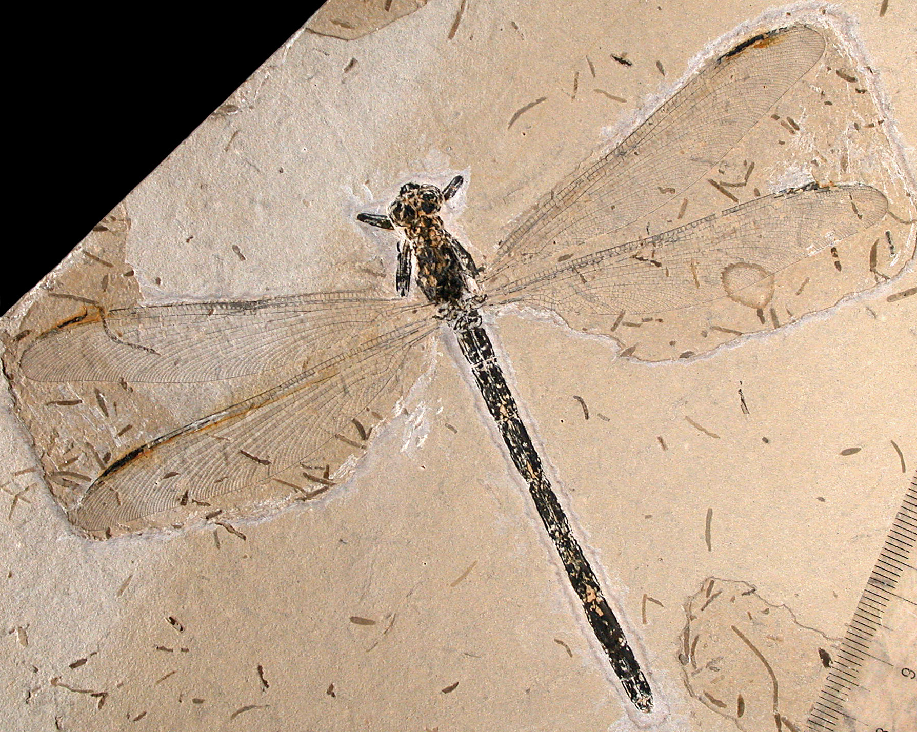 Cratostenophlebia schwickerti (Odonata: Stenophlebiidae), Lower Cretaceous, Crato Formation, Brazil, male holotype WDC 136